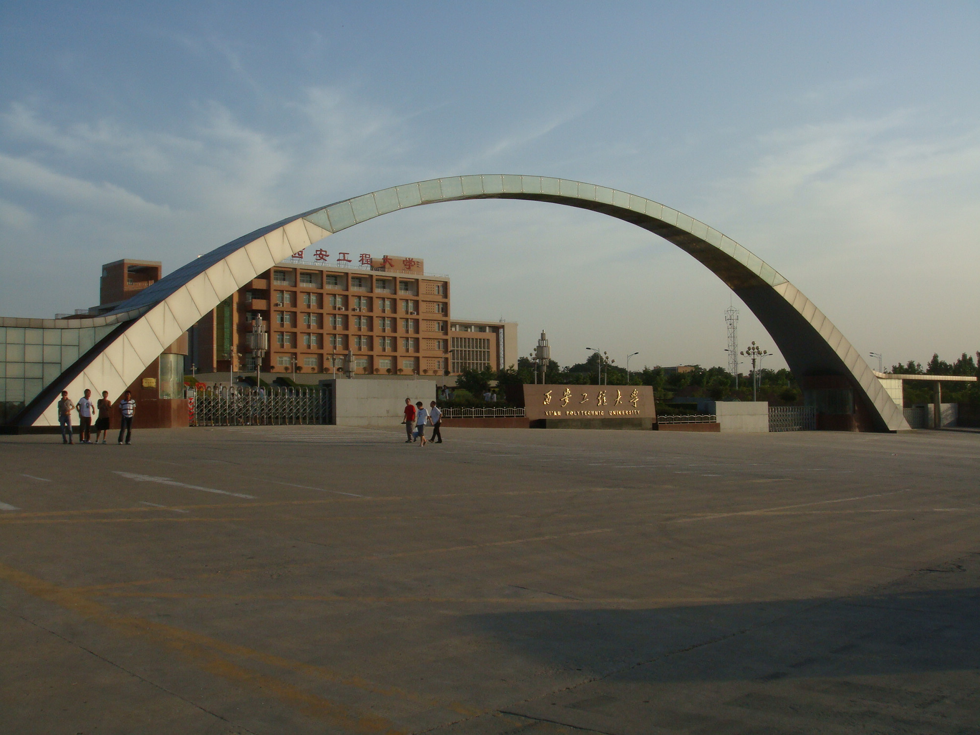 The main entrance of Xi'an Polytechnic University Lintong Campus